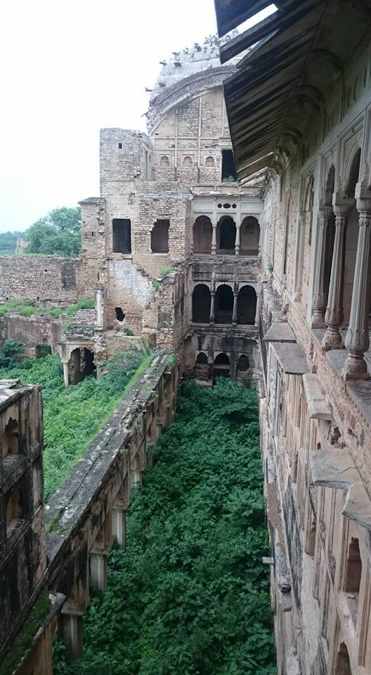 Sabalgarh fort